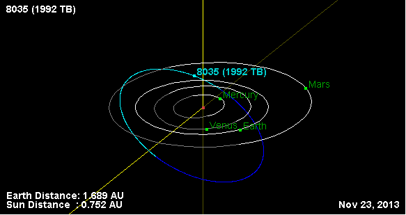 This diagram illustrates the orbit of the asteroid (8035) 1992 TB.